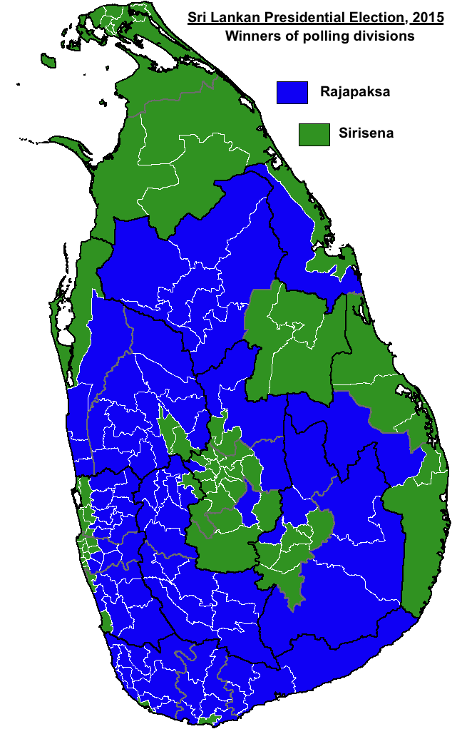 Map showing winners of polling divisions in the Sri Lankan presidential election of 2015.